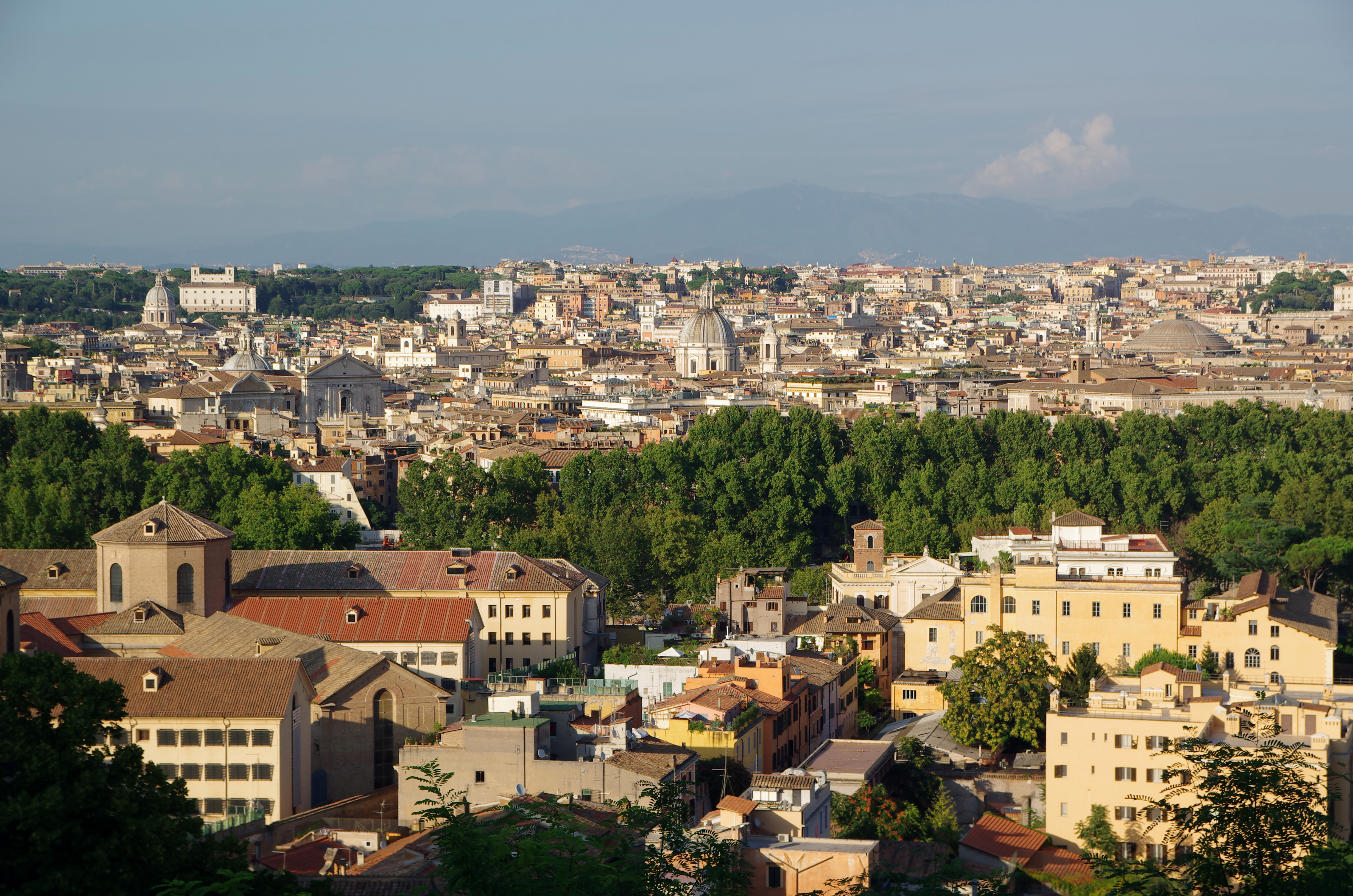 View from Janiculum Hill in Rome